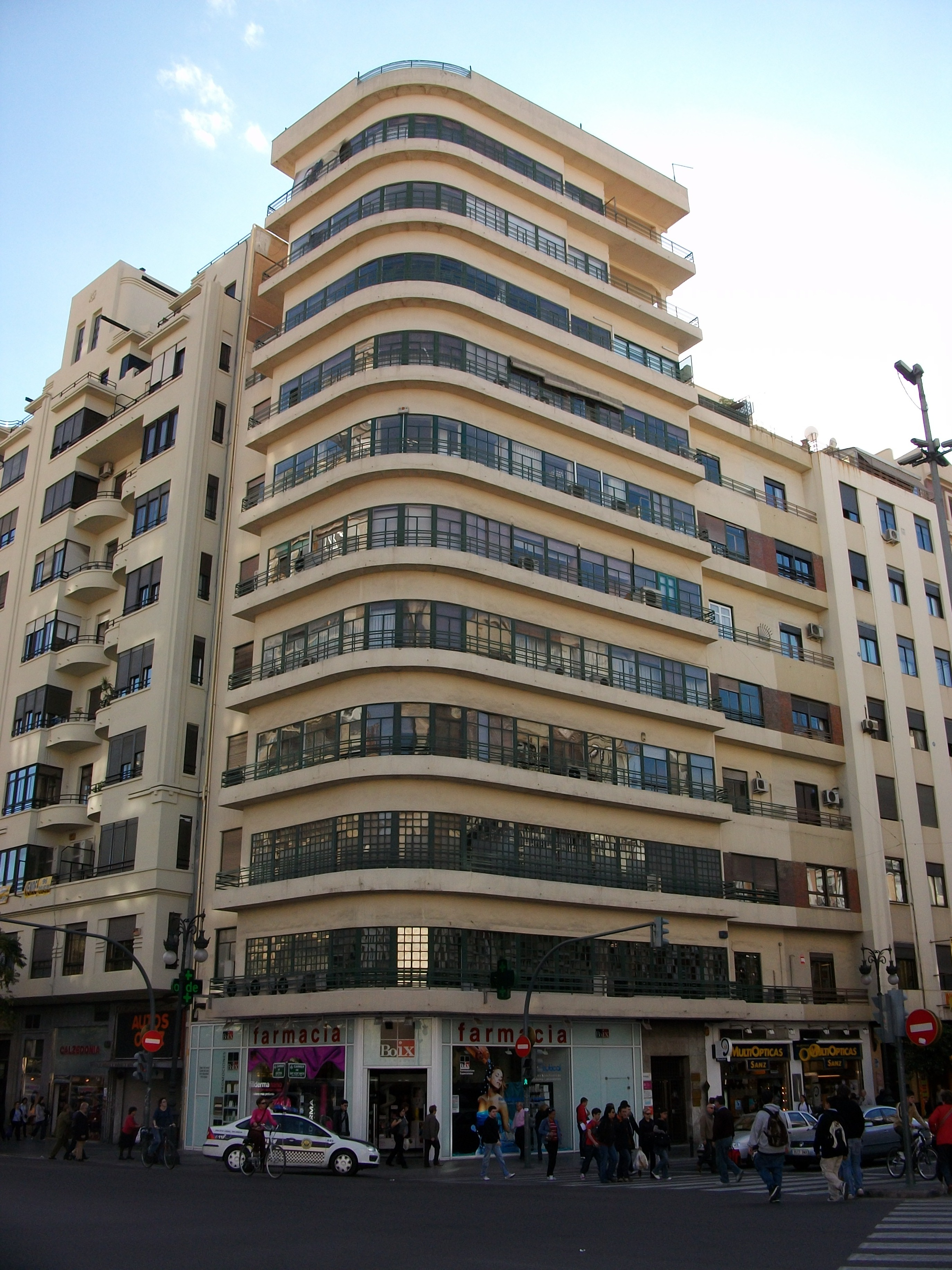 Alonso Building, València, l'Horta, País Valencià.